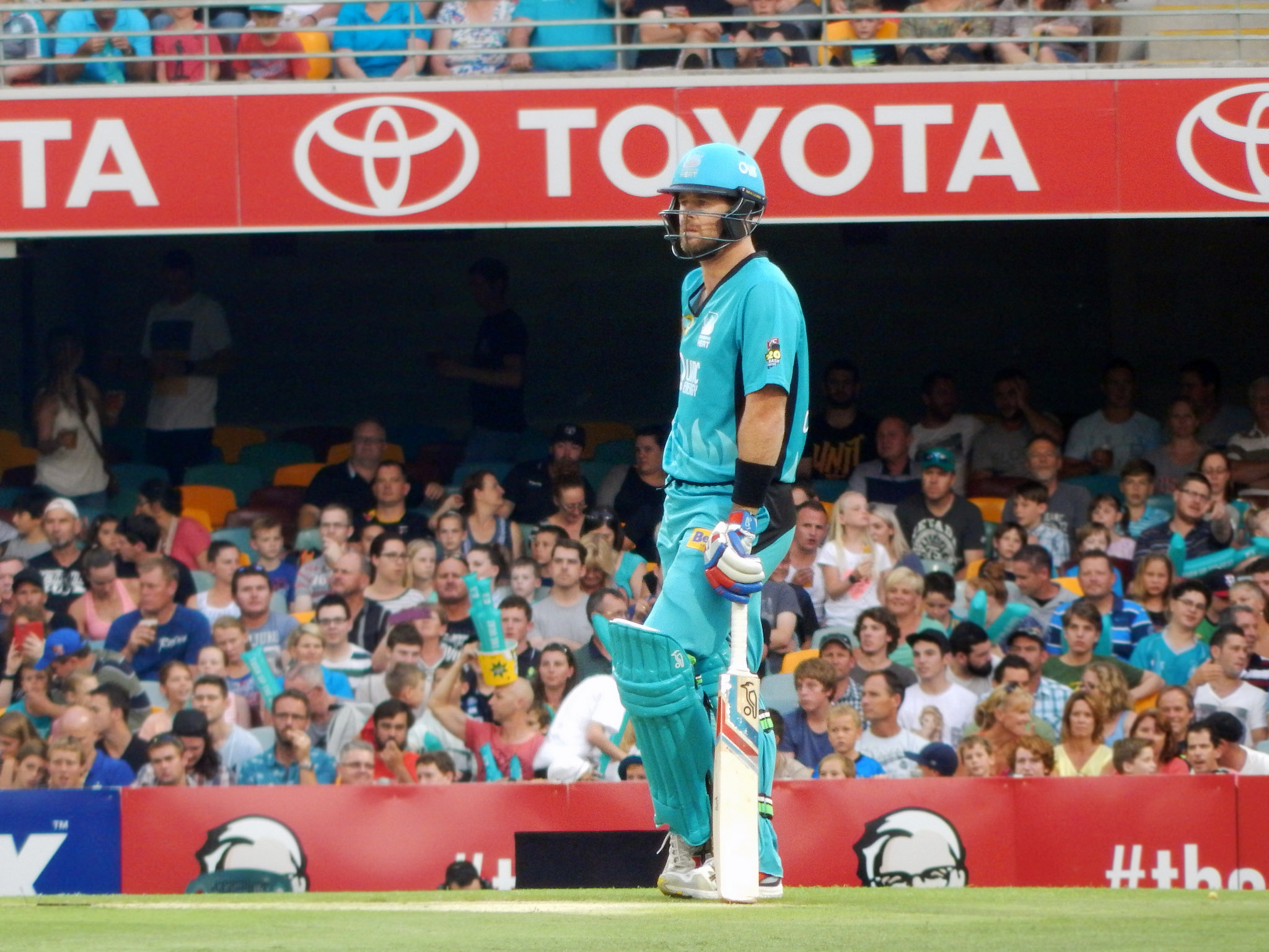 Dan Christian during Brisbane Heat vs Melbourne Stars 28/12/2014 T20 at the Gabba, Brisbane.